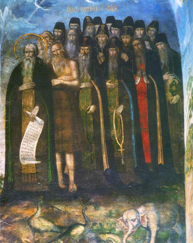 Icon of saints of Kyiv Caves Orthodox Monastery (Lavra). 11-14th century hermits from Kyiv, Ukraine.